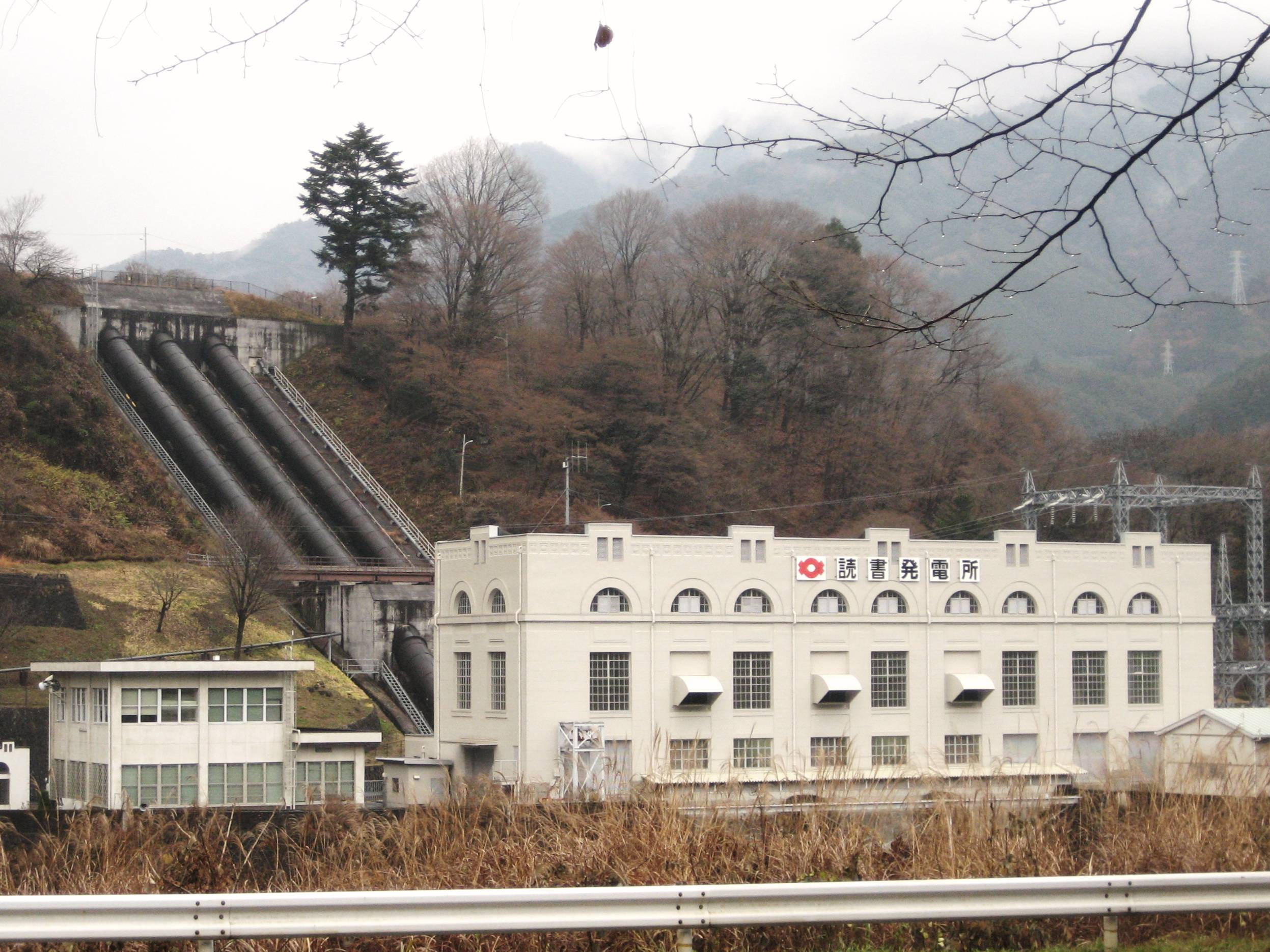 Yomikaki power station in Nagiso village, Nagano prefecture, Japan. Kansai Electric Power Company manages it.